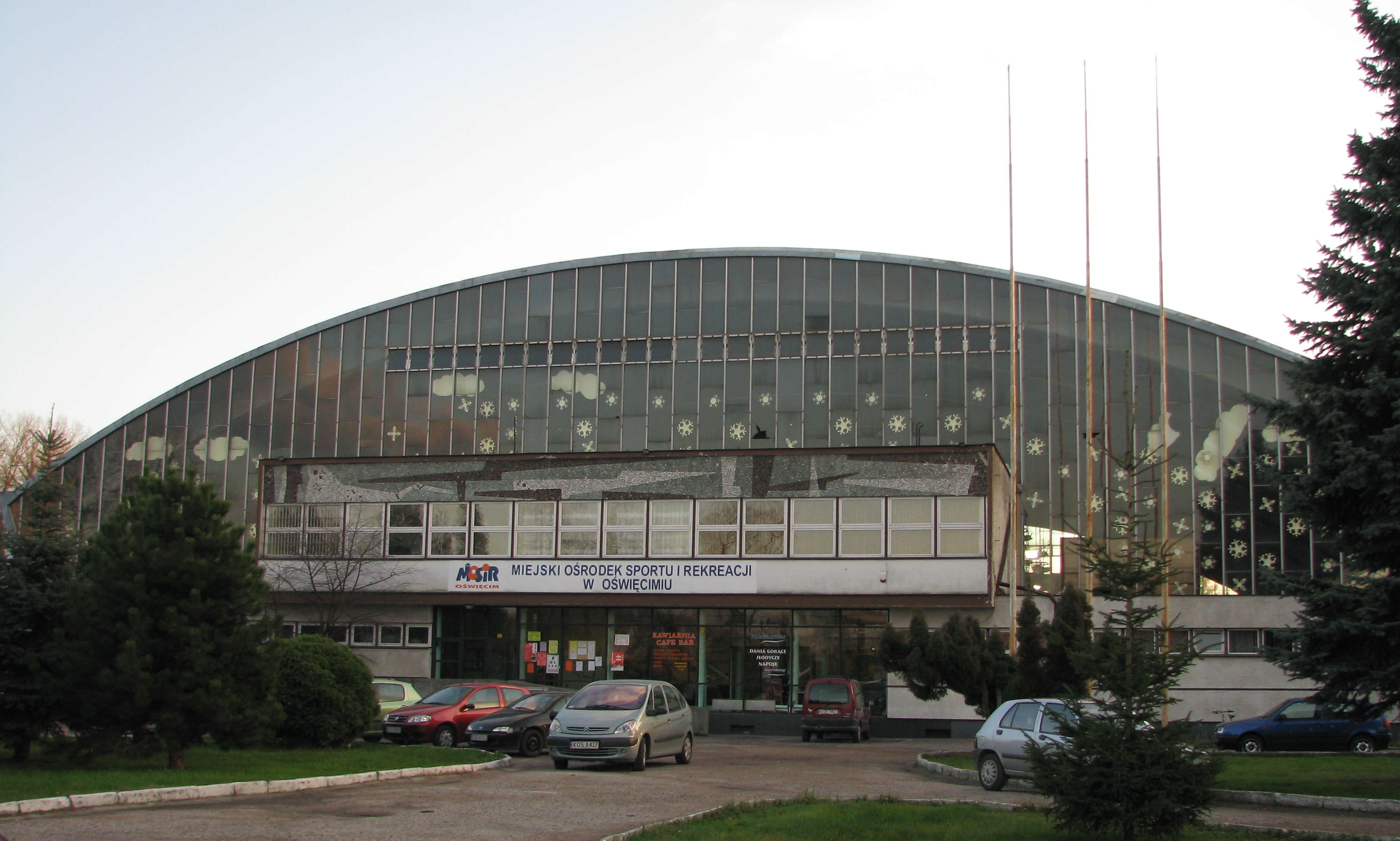 Ice rink in Oświęcim, Poland